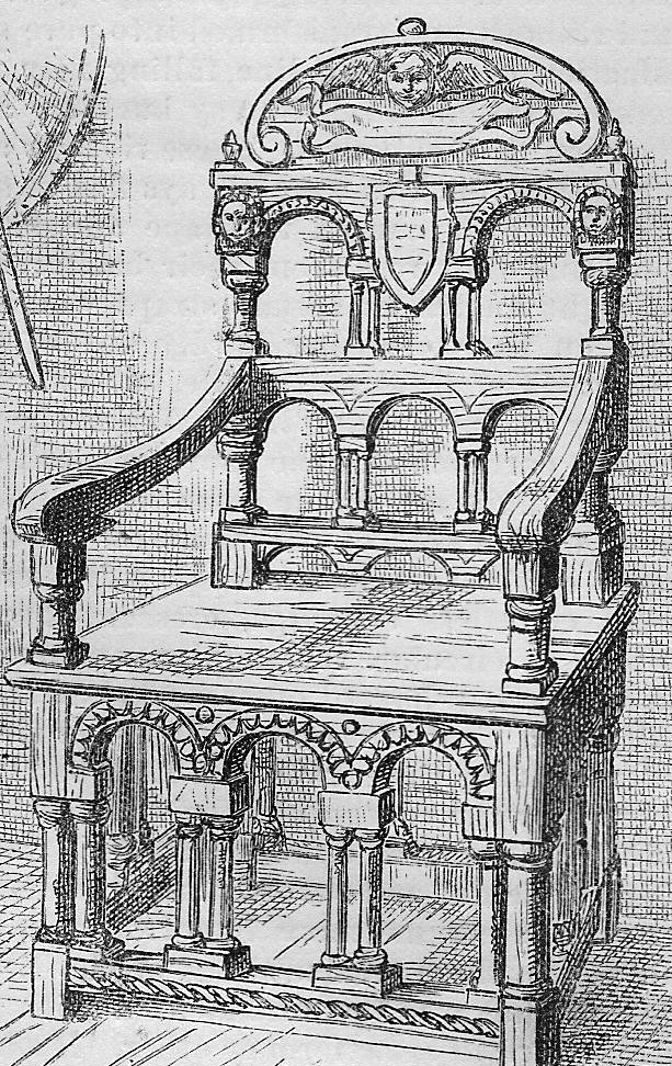 Chair made from wood of ship of Sir Francis Drake.